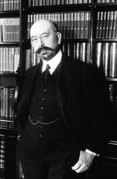 French journalist and playwright Alfred Capus (1858-1922).